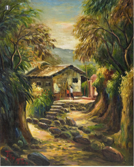 萊園風光（油彩）